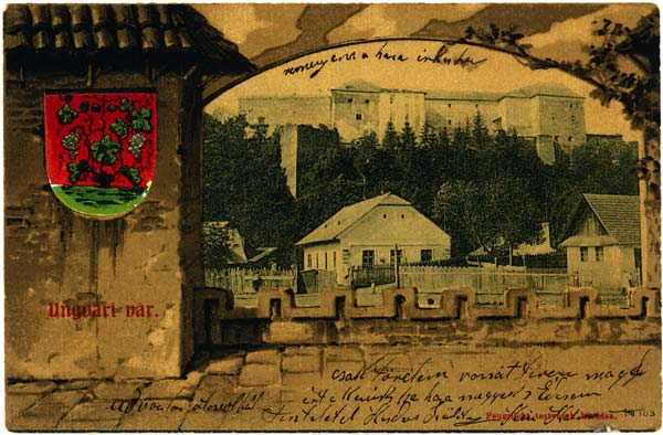 Ужгородський замок (Feuerlicht testvérek kiadása.)